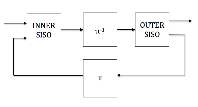 Diagram of an serial concatenated convolutional code (SCCC) FEC decoder.